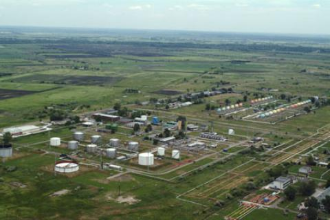 Aerialphotography: Algyő.